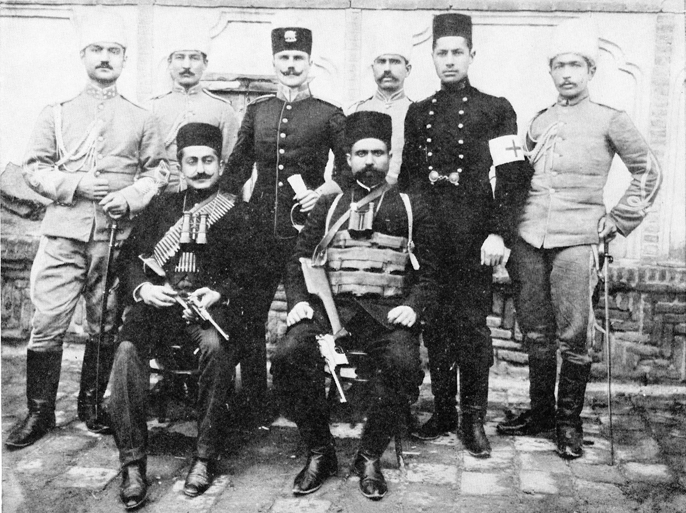 Ephraim Khan, Sardar-e Baradur and Major Haase in Tehran, 1911